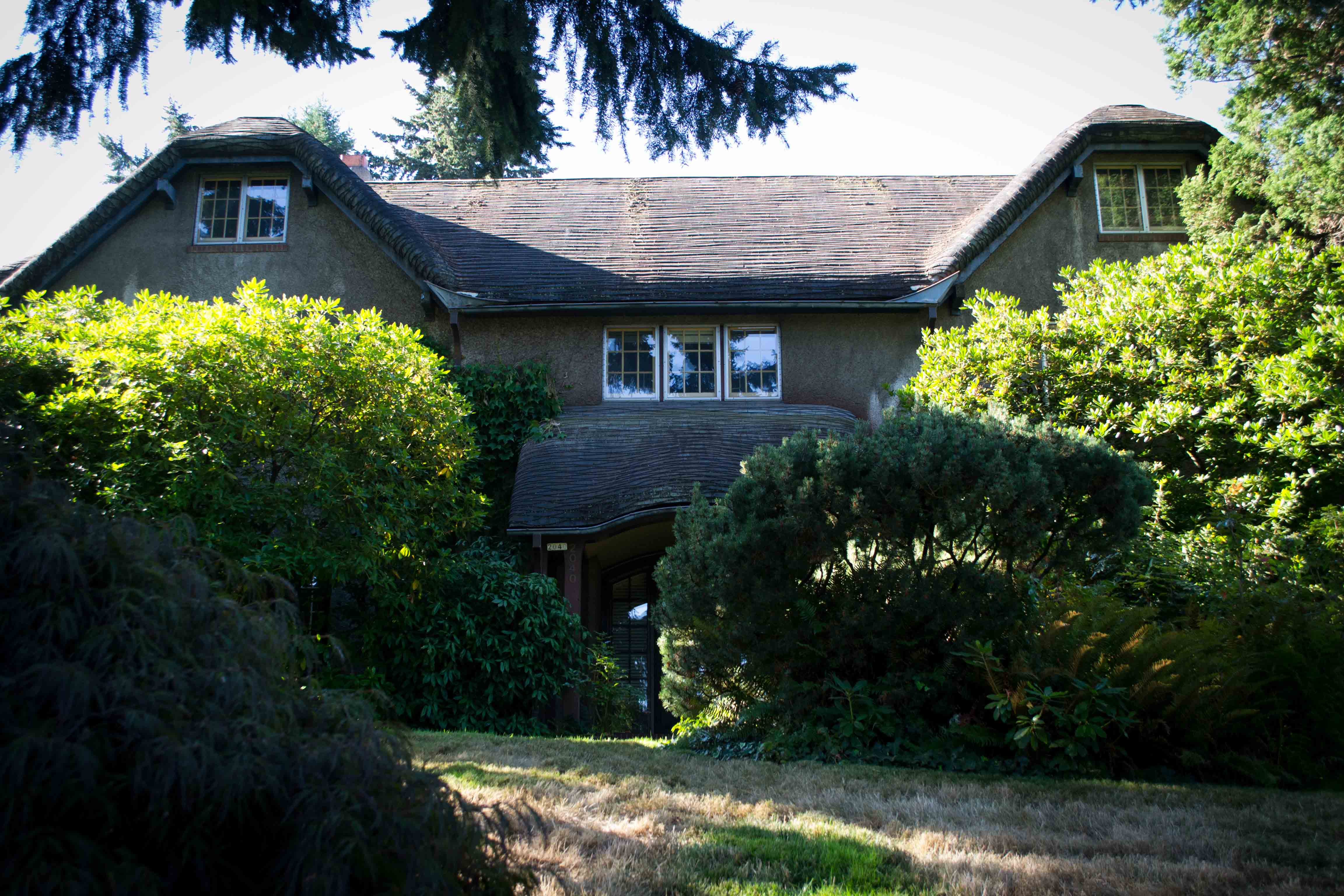 National Register of Historic Places listing in Portland, Oregon